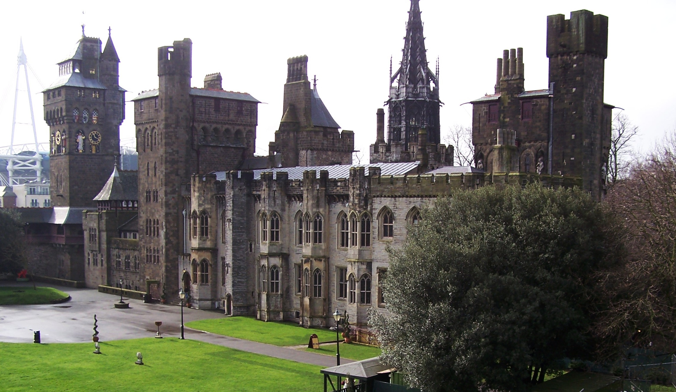 Cardiff Castle, Cardiff (county).